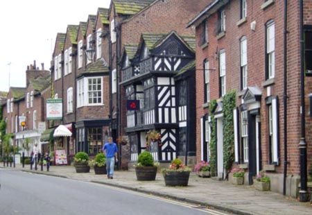 Nice Restaurant, Swanwick House, Priest's House, Church House and Ravenstone